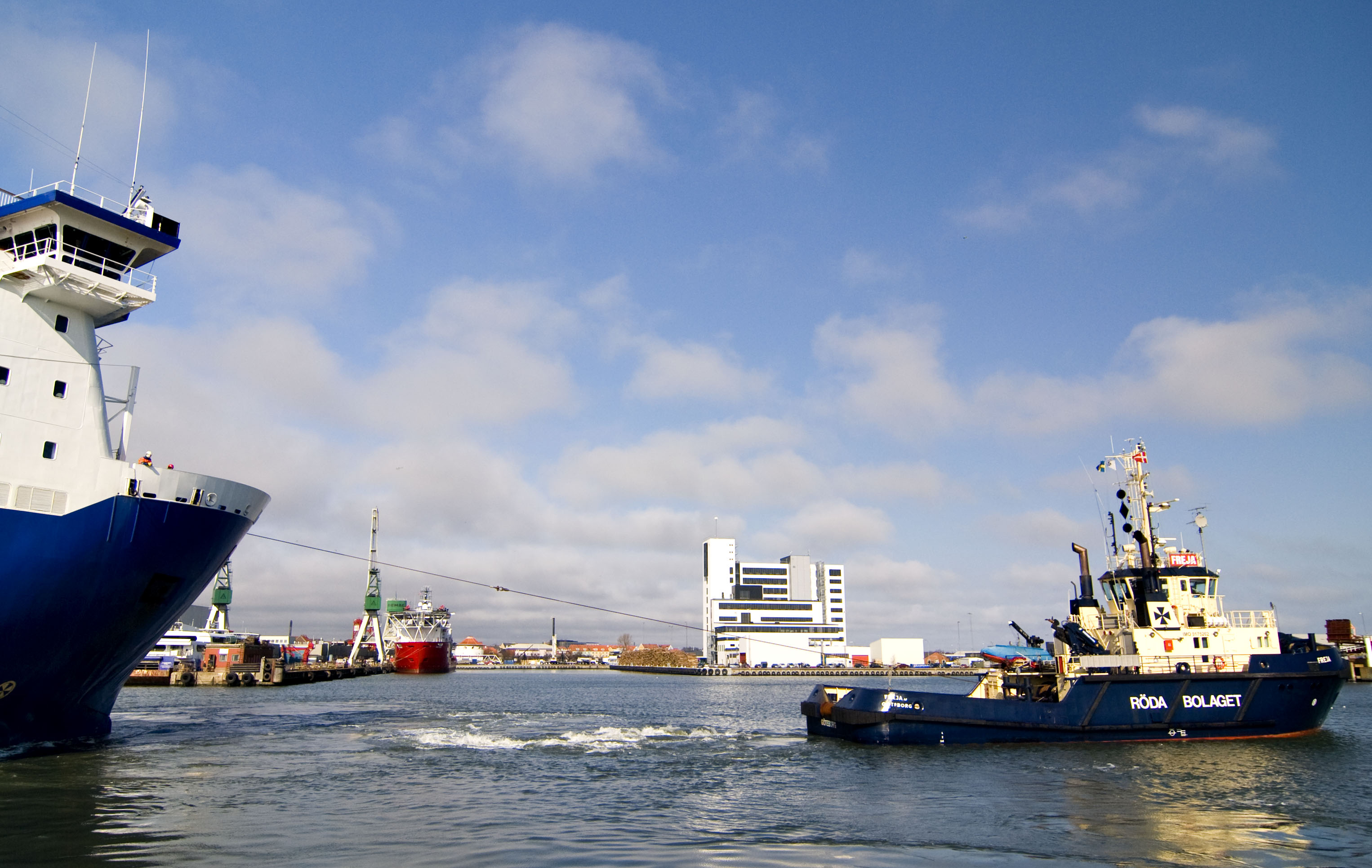 The swedish tug Svitzer Freja performing a towing operation in the port of Frederikshavn